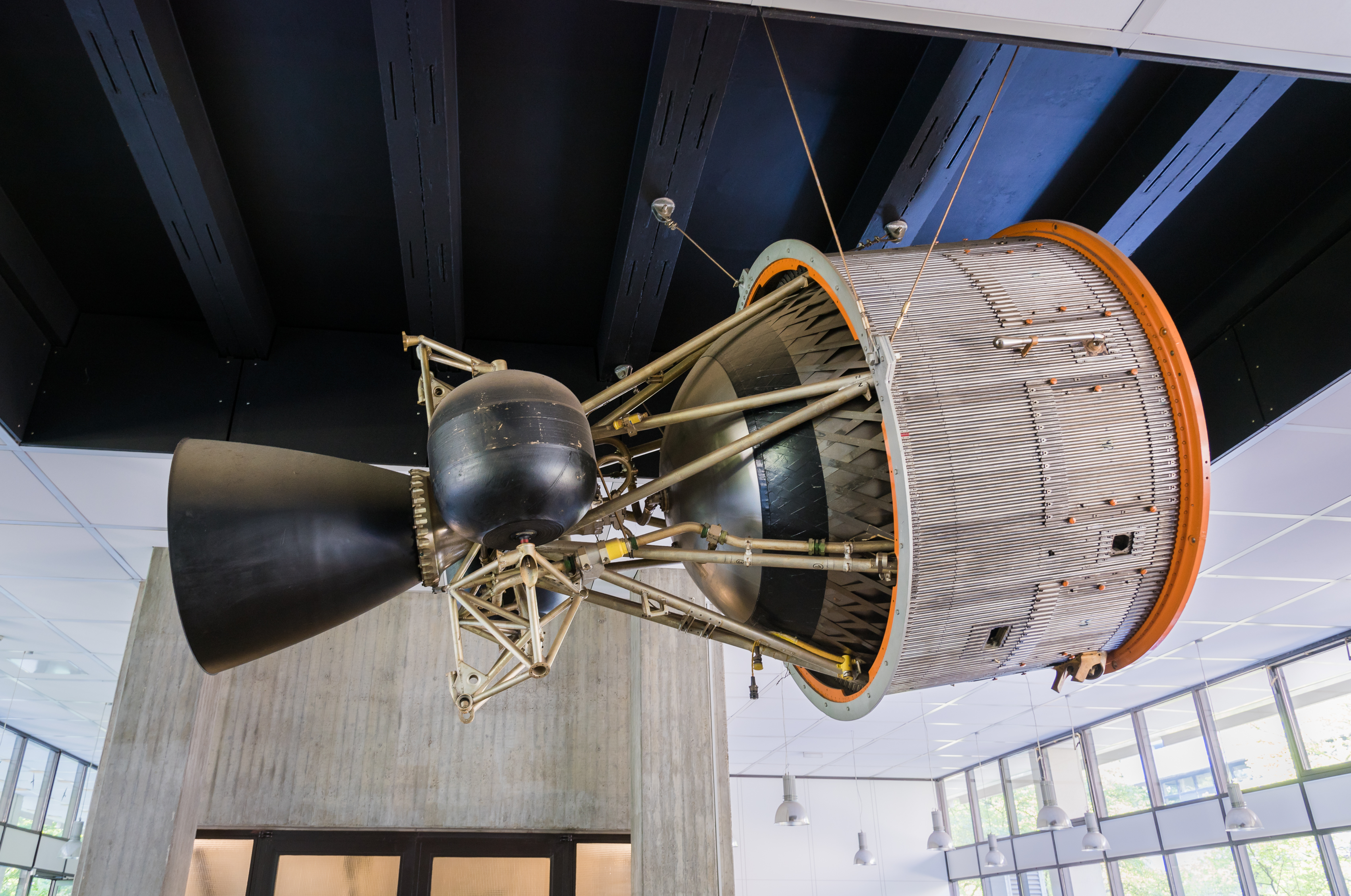 Astris, the third (upper) stage of the Europa I rocket, on display in Pfaffenwaldring 31 (V 31) on the campus of University of Stuttgart in Vaihingen, Stuttgart, Germany. Astris was developed by ERNO and MBB and built by Messerschmitt-Bölkow-Blohm (MBB) and ERNO in Germany.